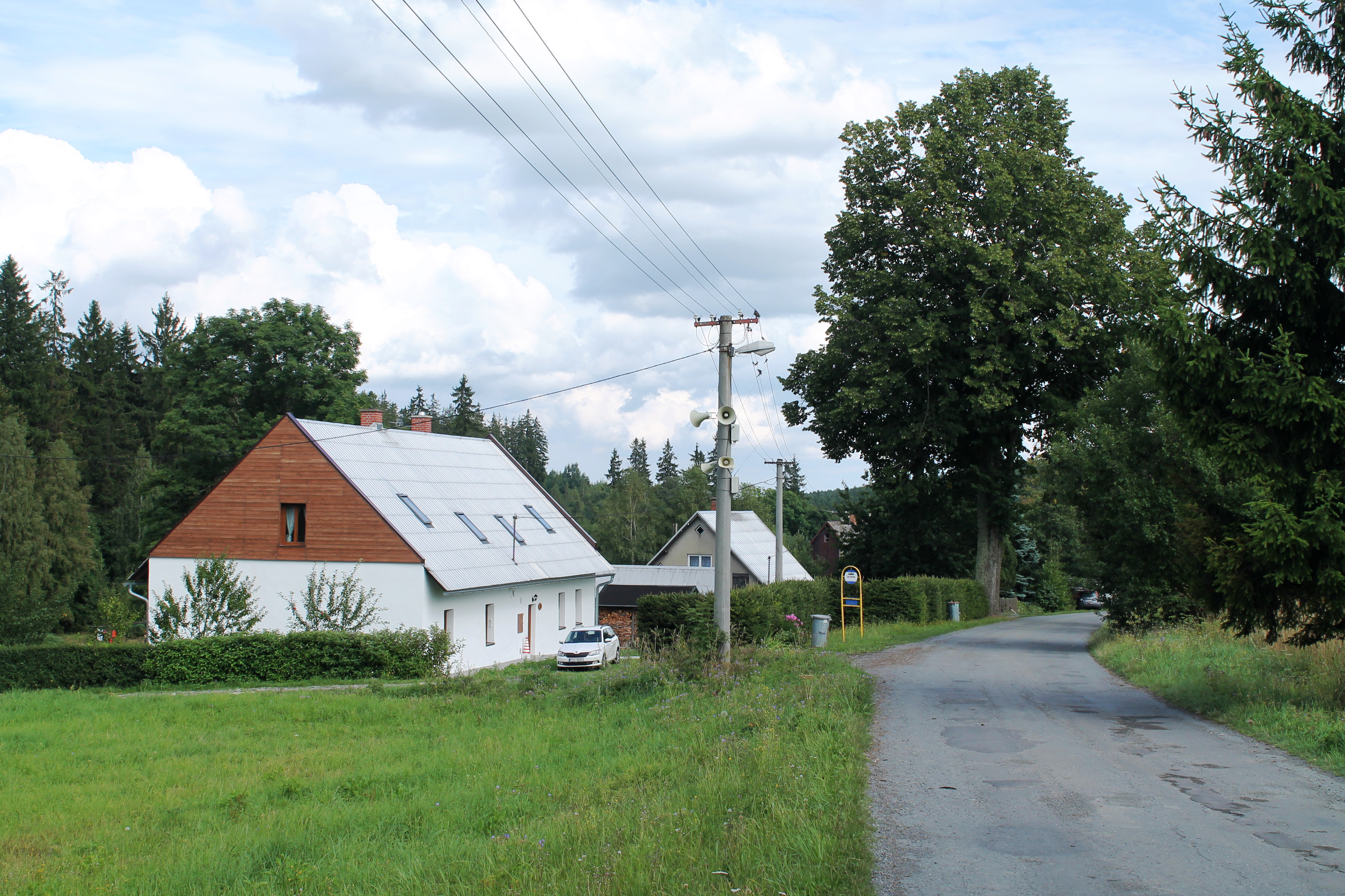 Podlesí, Světlá Hora, Bruntál District, Czech Republic